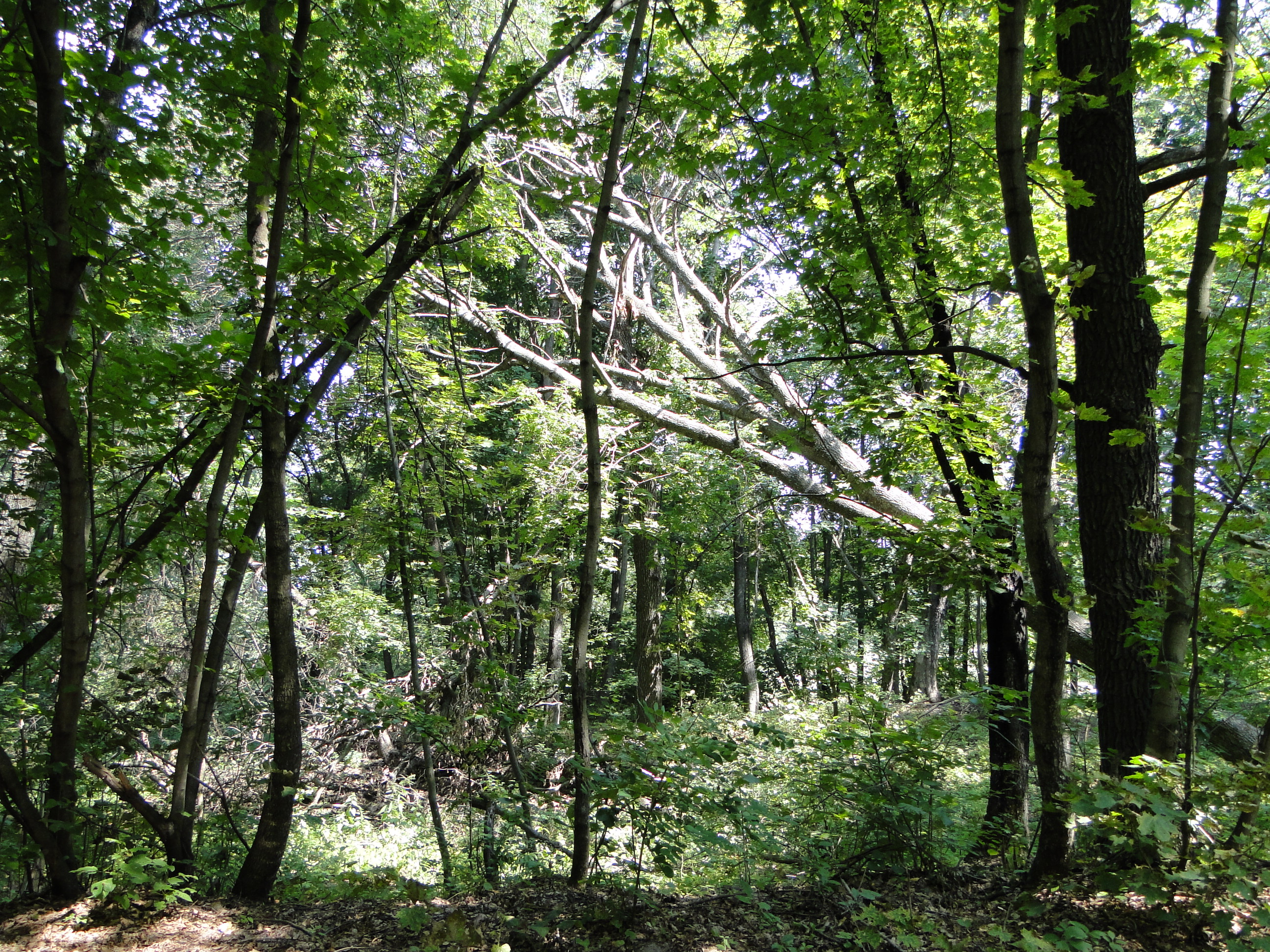 Forest, Voronezh Nature Reserve